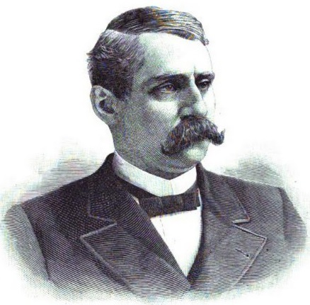 Joseph H. Sweney (Iowa Congressman)